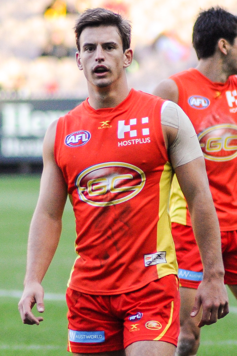 Jarryd Lyons during the AFL round twelve match between Melbourne and Collingwood on 10 June 2017 at the Melbourne Cricket Ground in Melbourne, Victoria.